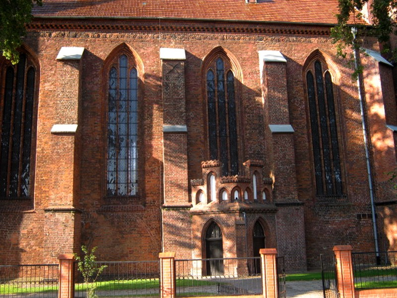 The corps the nave of StMary's church in Gryfice (Poland